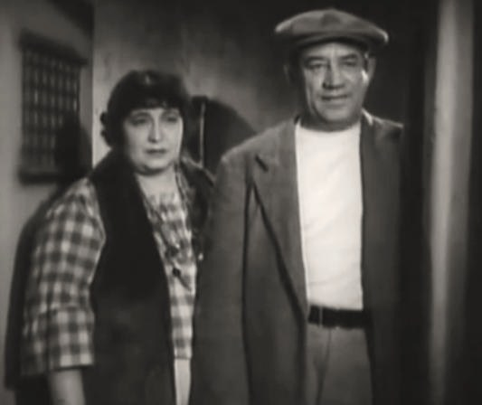 Nina Koshetz & Stanley Fields in Algiers - cropped screenshot